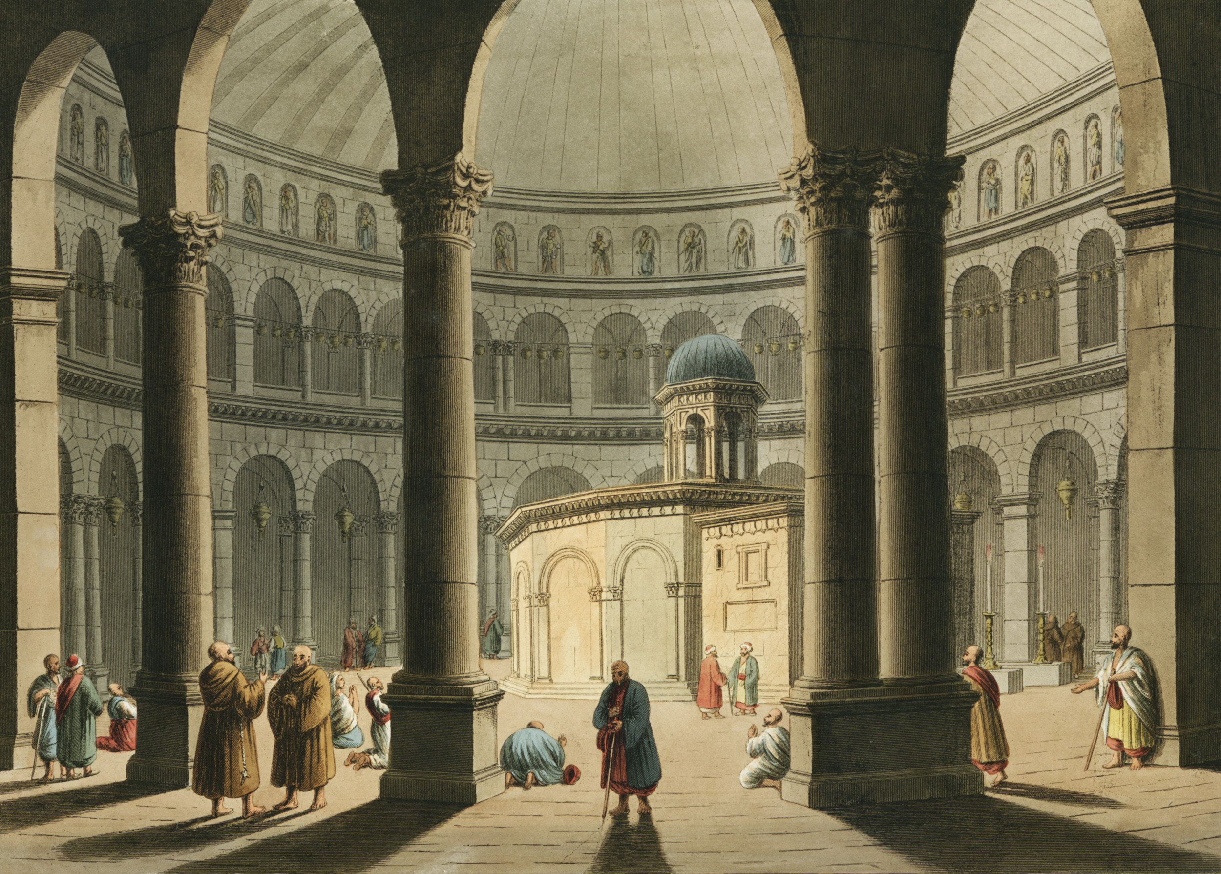 Church of the Holy Sepulchre from Views in the Ottoman Dominions, in Europe, in Asia, and some of the Mediterranean islands (1810) illustrated by Luigi Mayer (1755-1803).